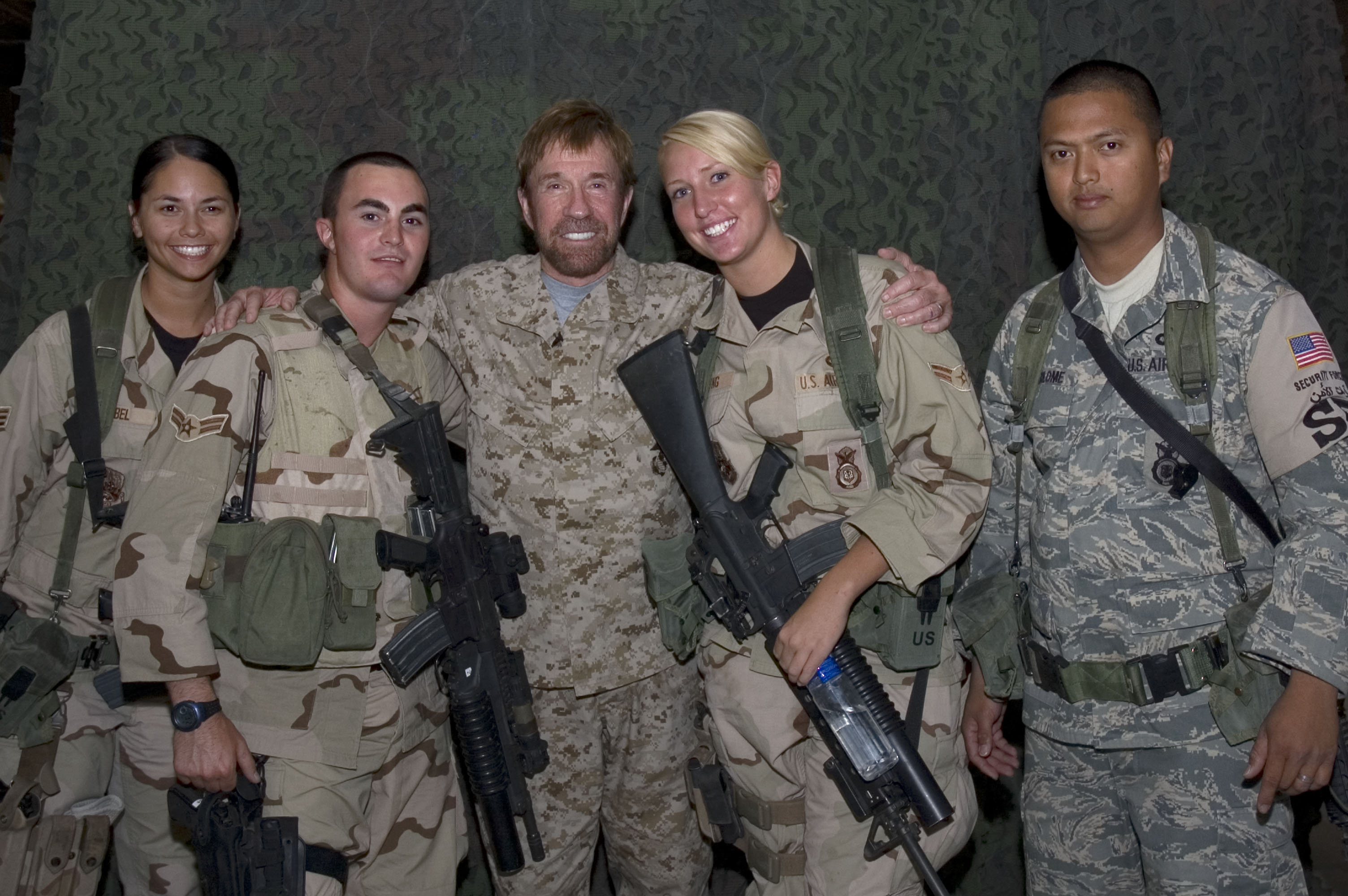 SOUTHWEST Asia -- Security Forces Airmen with the 386th Air Expeditionary Wing, pose for a photograph with Walker, Texas Ranger star, Chuck Norris who is currently visiting troops in Southwest Asia. Before becoming a celebrity, Mr. Norris was a Security Forces member in the United States Air Force. (U.S. Air Force Photo by Staff Sgt. Tia Schroeder)